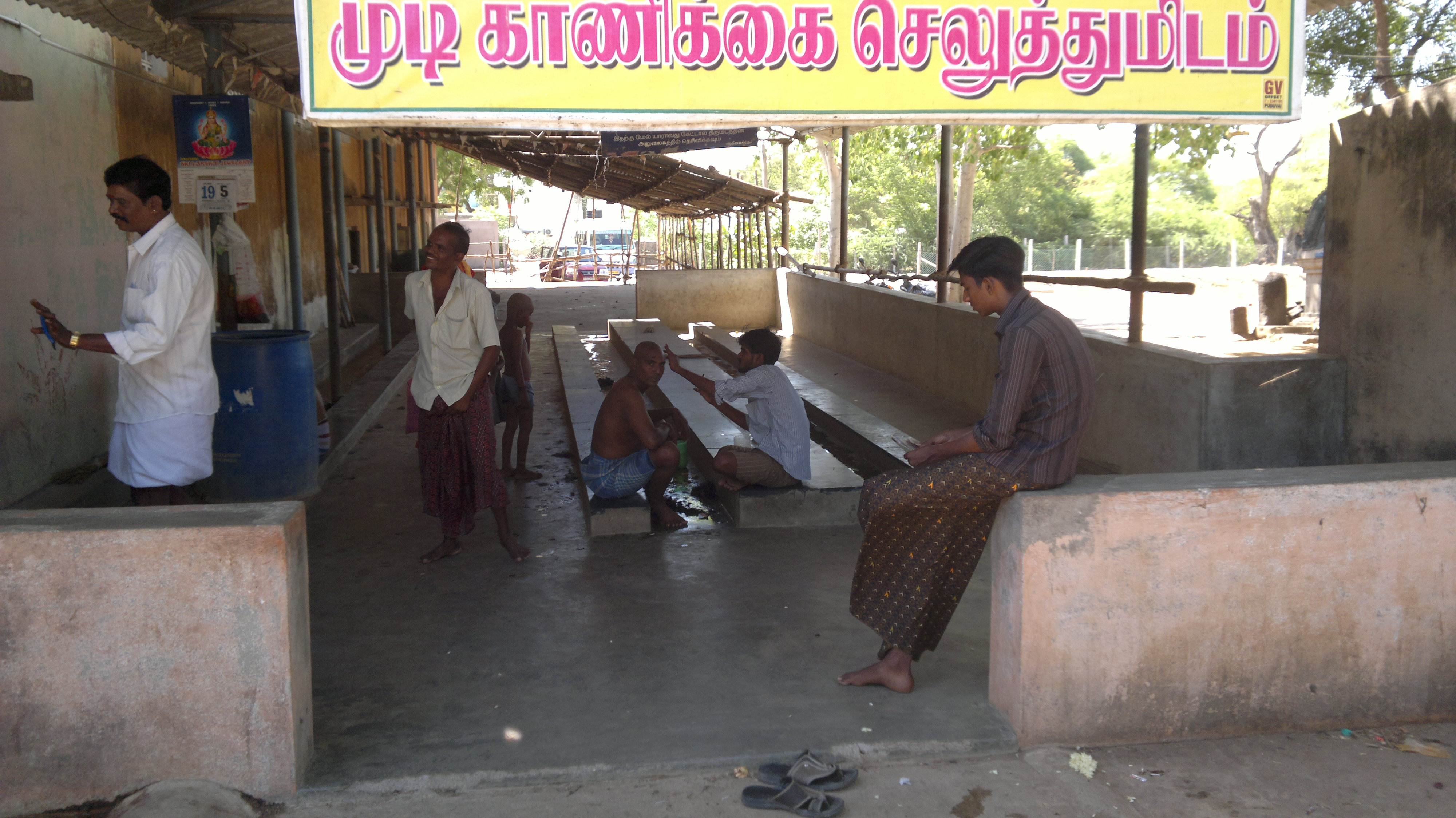 Tonsure Place where the pilgrims will offer Tonsure.